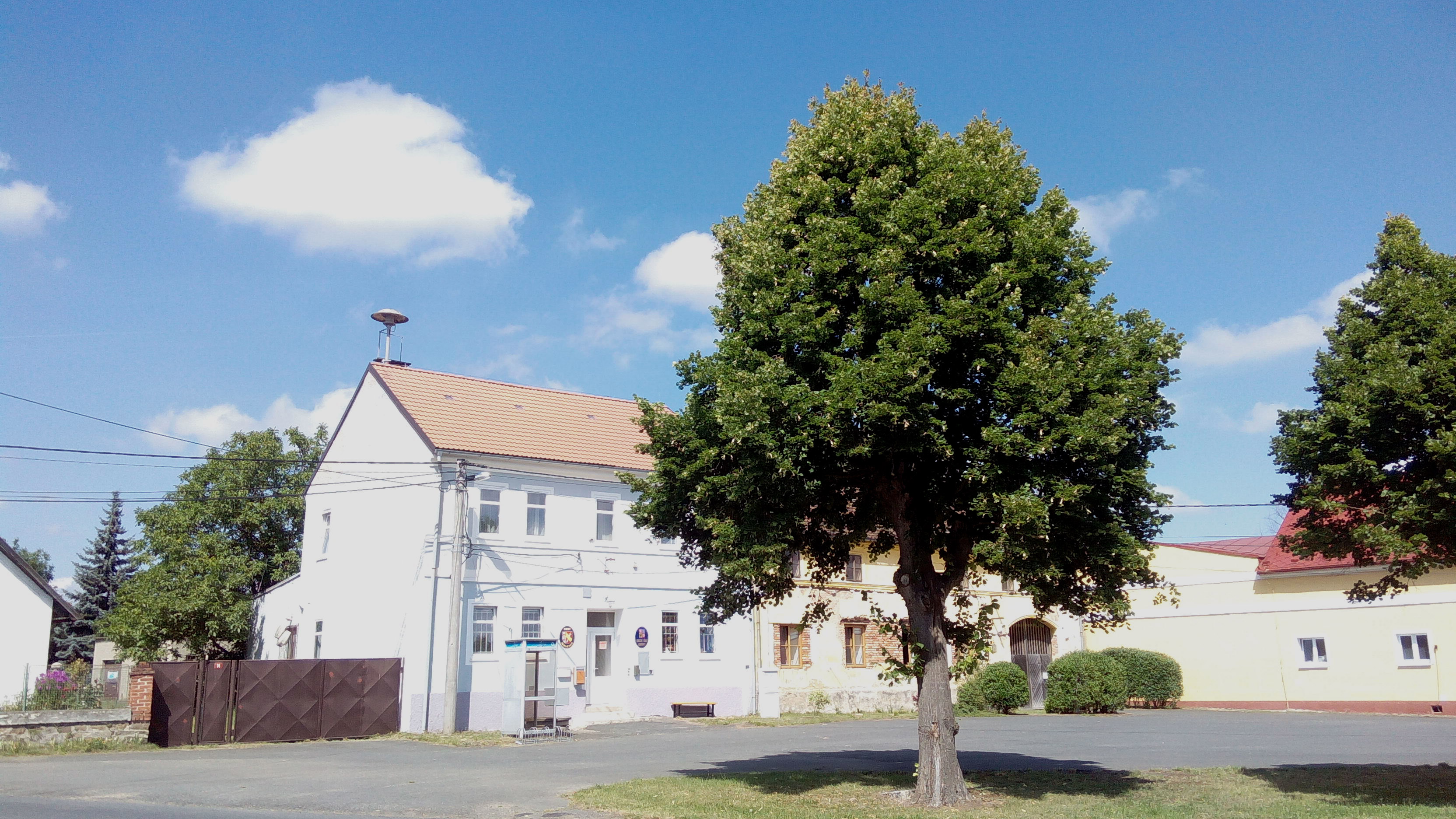 Town hall in Semněvice, Plzeň Region, Czech Republic.